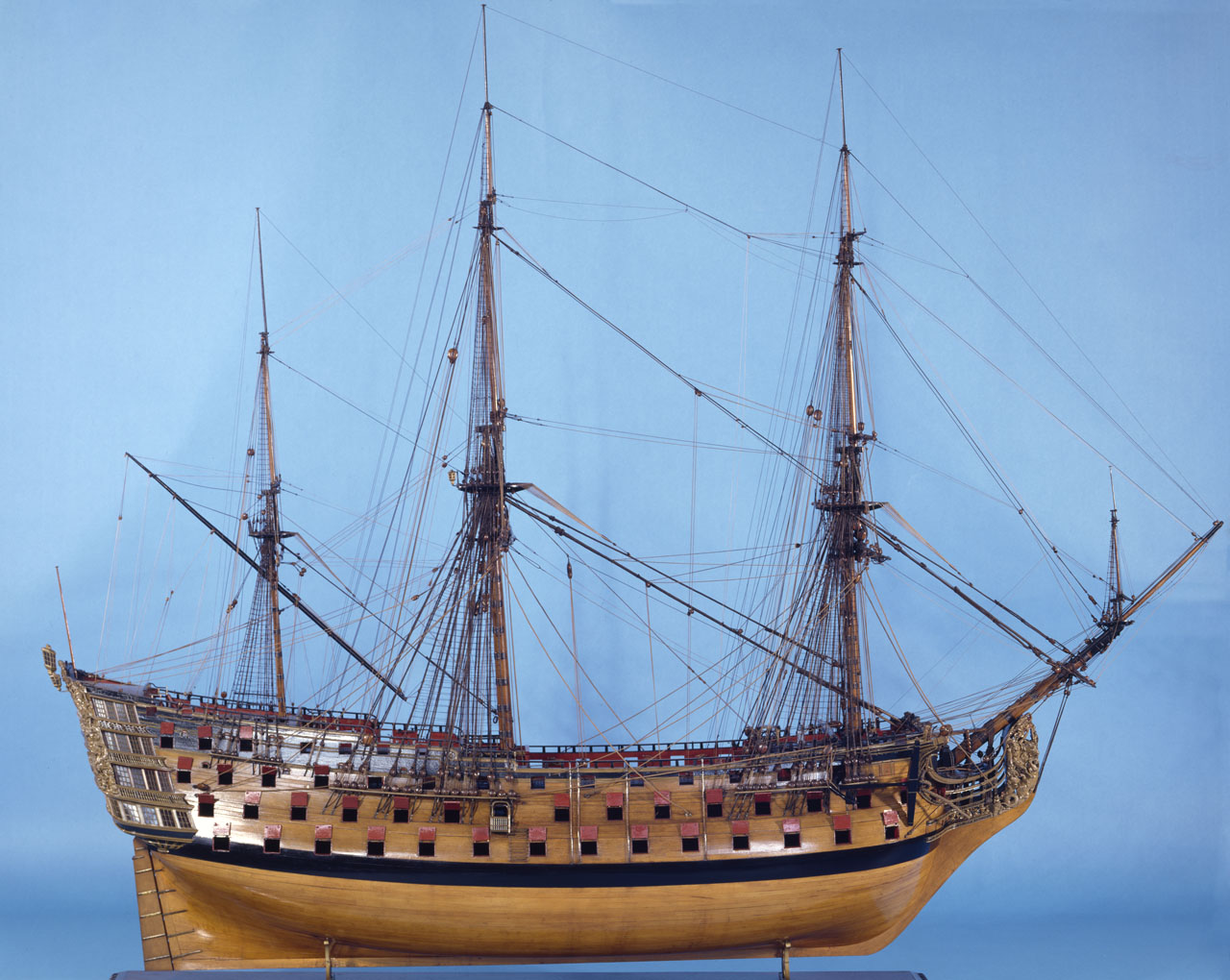 Scale: 1:34.3. A contemporary full hull model of the 'Victory' (1737), a 100-gun three-decker first-rate ship of the line. Built in 'bread and butter fashion' and finished in the Georgian style, the model is partially decked, fully equipped and rigged. The large scale of this model would support the theory that this was once part of the equipment of the Royal Naval Academy at Portsmouth Dockyard, and used for the educating of young gentlemen to the sea-service. In fact in 1742, six of these young gentlemen wrote to the Navy Board complaining ‘the model of the Victory is so small, her rigging so slight, that we cannot learn anything from it, neither do we know anything of rigging or the stowage of anchors or cables, we are quite ignorant of everything that belongeth to sails’. They petitioned the use of an old yacht, converted to two mast to improve them in the art of the rigging of ships and their request was granted. The 'Victory’ itself was built in the Royal Dockyard, Portsmouth and measured 174 feet along the gun deck by 50 feet in the beam and had a tonnage of 1921 (builders old measurement). In 1744, a formidable fleet, commanded by Admiral Sir John Balchen in the 'Victory’, was sent to relieve Gibraltar and drove the French fleet into Cadiz. He was returning to England when his fleet was scattered by a violent gale on 4 October. So much damage was done that the 'Victory’ was lost with all hands, nearly 1200 men, on the Casquets, off Alderney, in the Channel Islands.